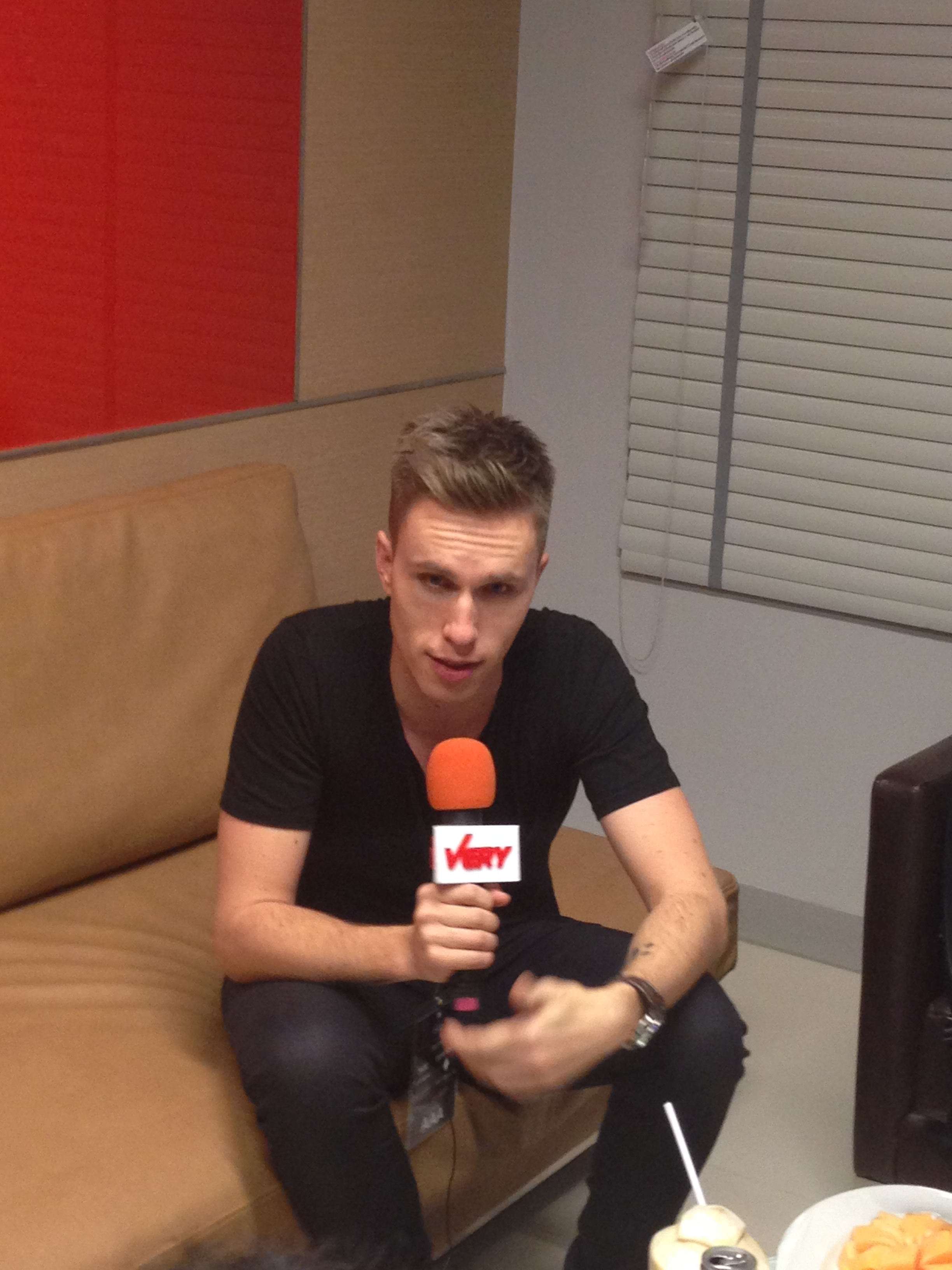 Nicky Romero interviewed with VERY TV.